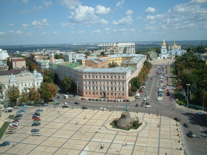 Sofiyska Square, Kiev